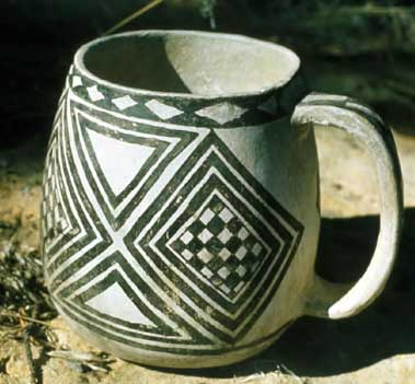 This mug, made in the 13th century (A.D. 1200s), represents the exceptional artistic expression of the Ancestral Puebloan people. Mesa Verde pottery typically featured black geometric patterns applied with a yucca paintbrush on a grayish white background. These patterns were remarkable for their balance and design. Pottery first appeared in Mexico, and by A.D. 400 to A.D. 500, it was made in Mesa Verde. Ancestral Puebloans experimented with adding a tempering material such as sand or finely ground grit from the region to keep pottery from cracking as it dried. The pottery was then fired and decorated using dye from Beeweed, which satisfied both utilitarian and aesthetic uses.